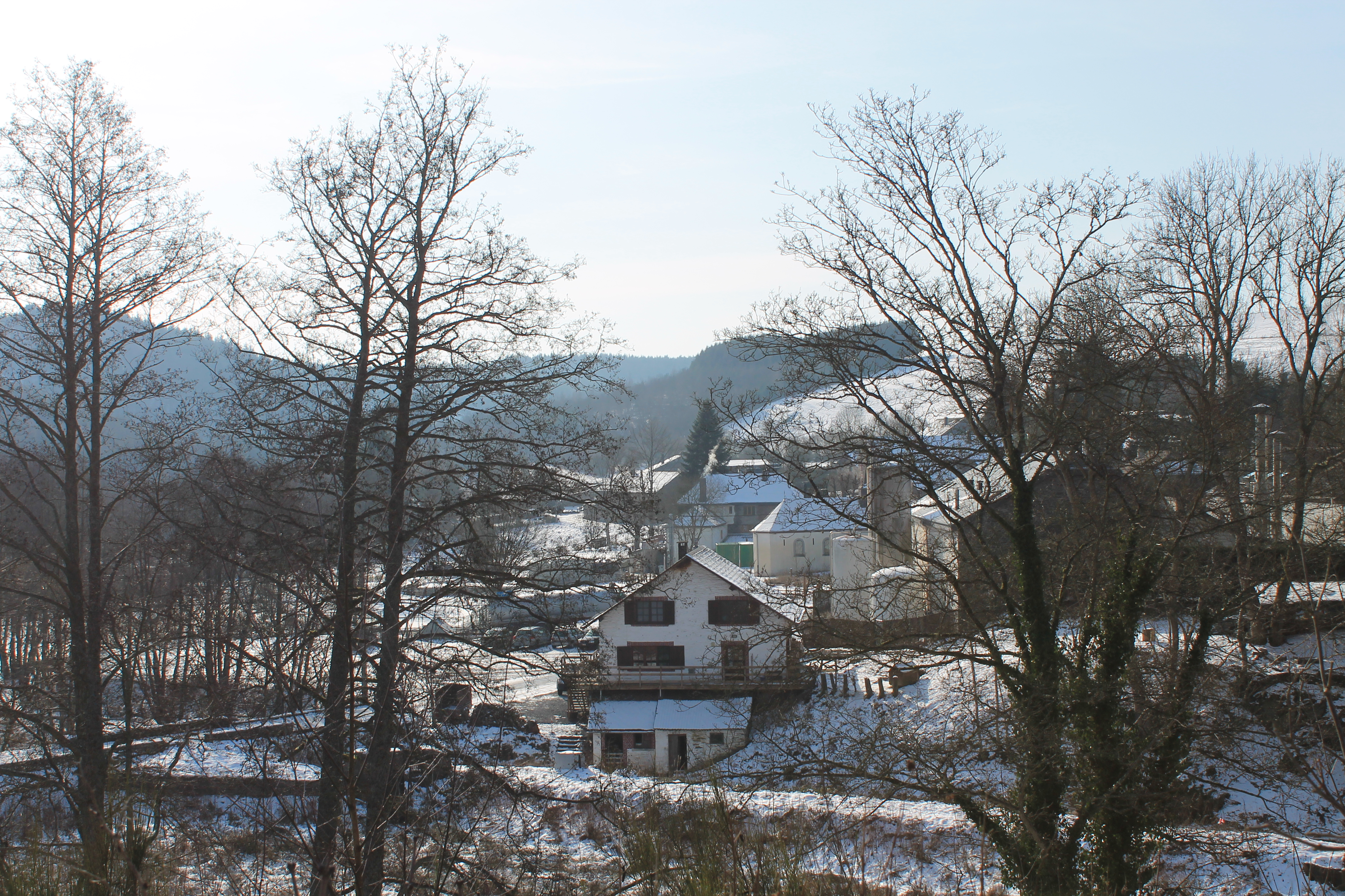 Panorama of Achouffe